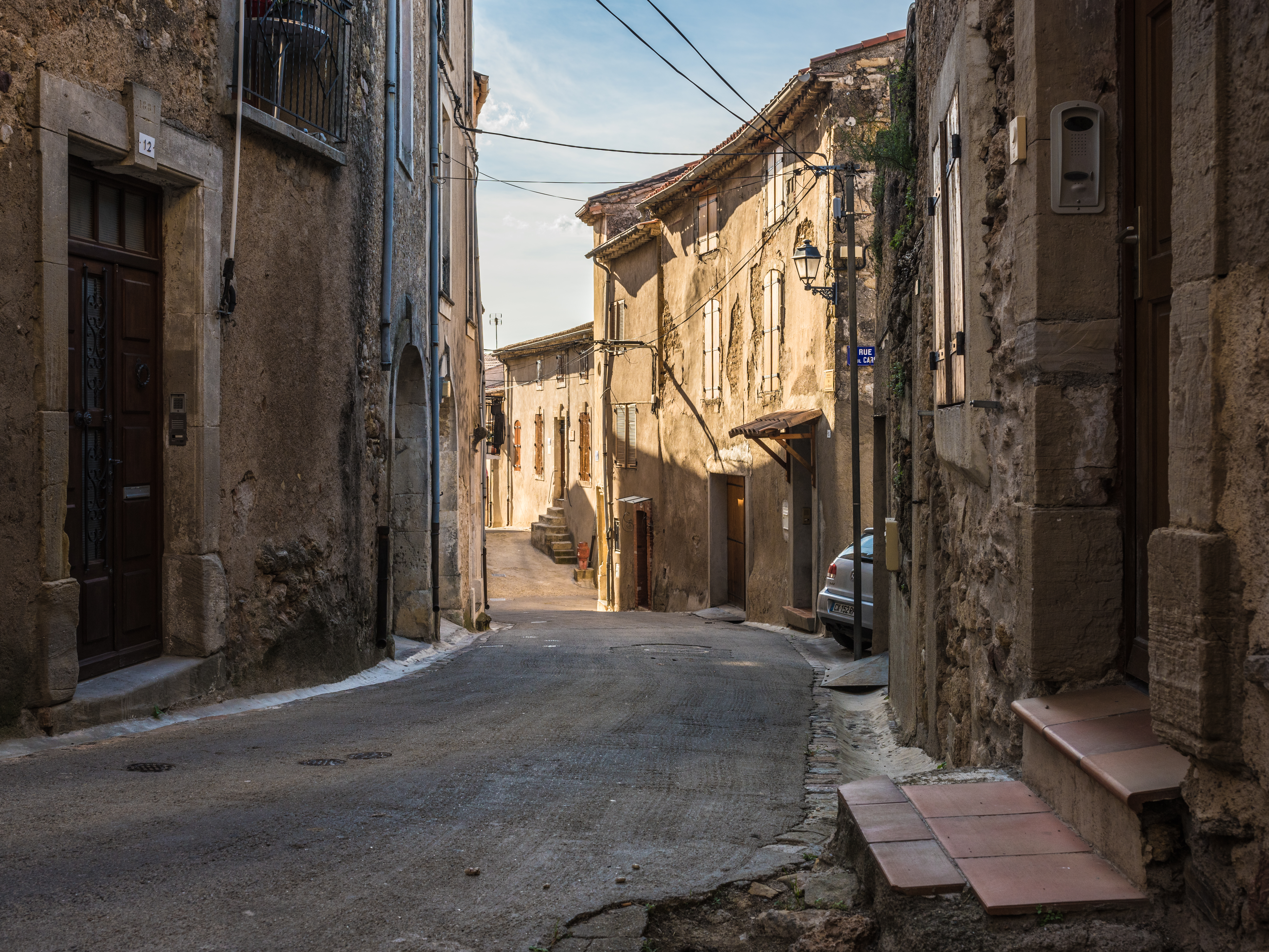 Paul Cuny Street seen from Southeast. Murviel-lès-Béziers, Hérault, France.